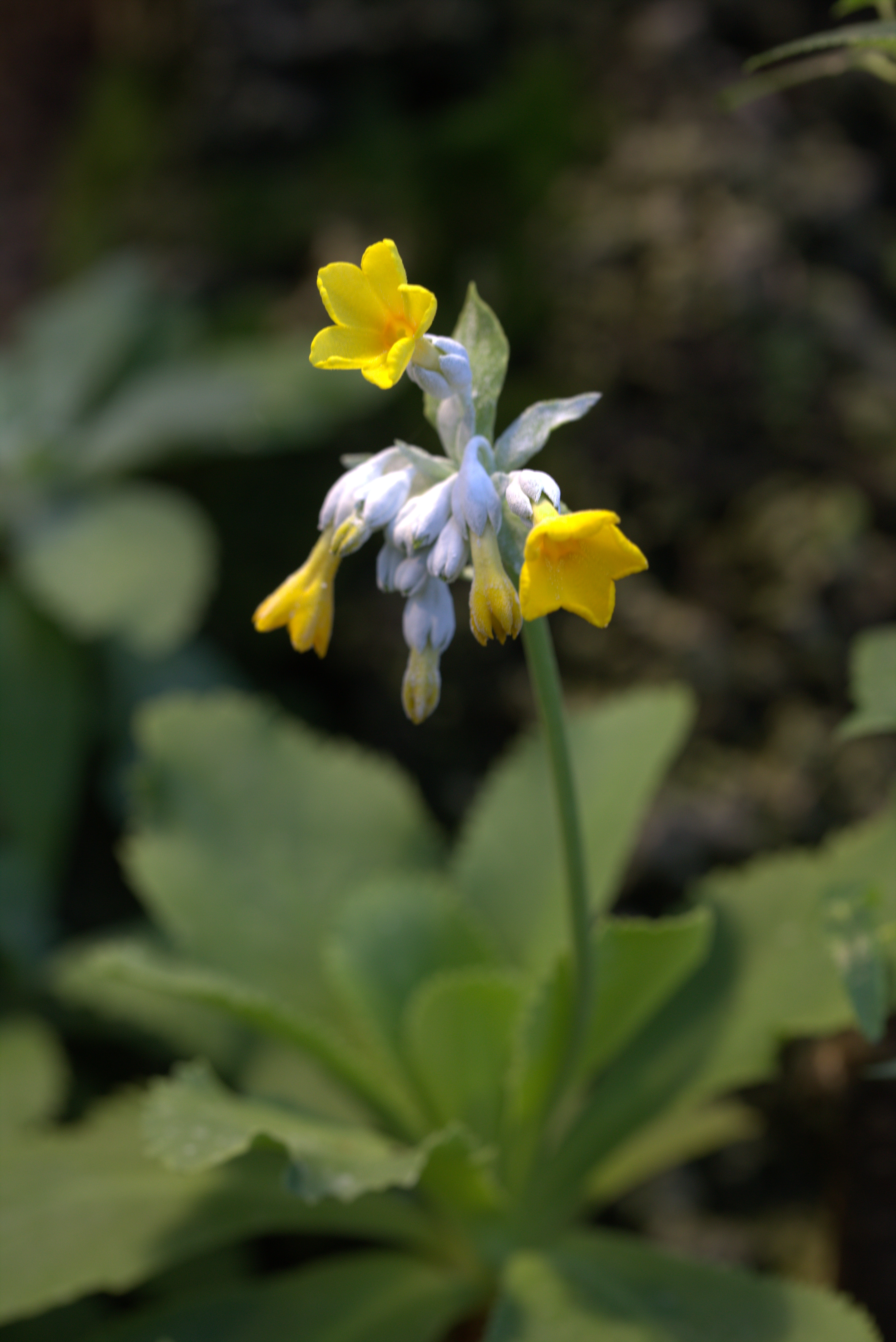 Primula palinuri at Gothenburg Botanical Garden in 2015.